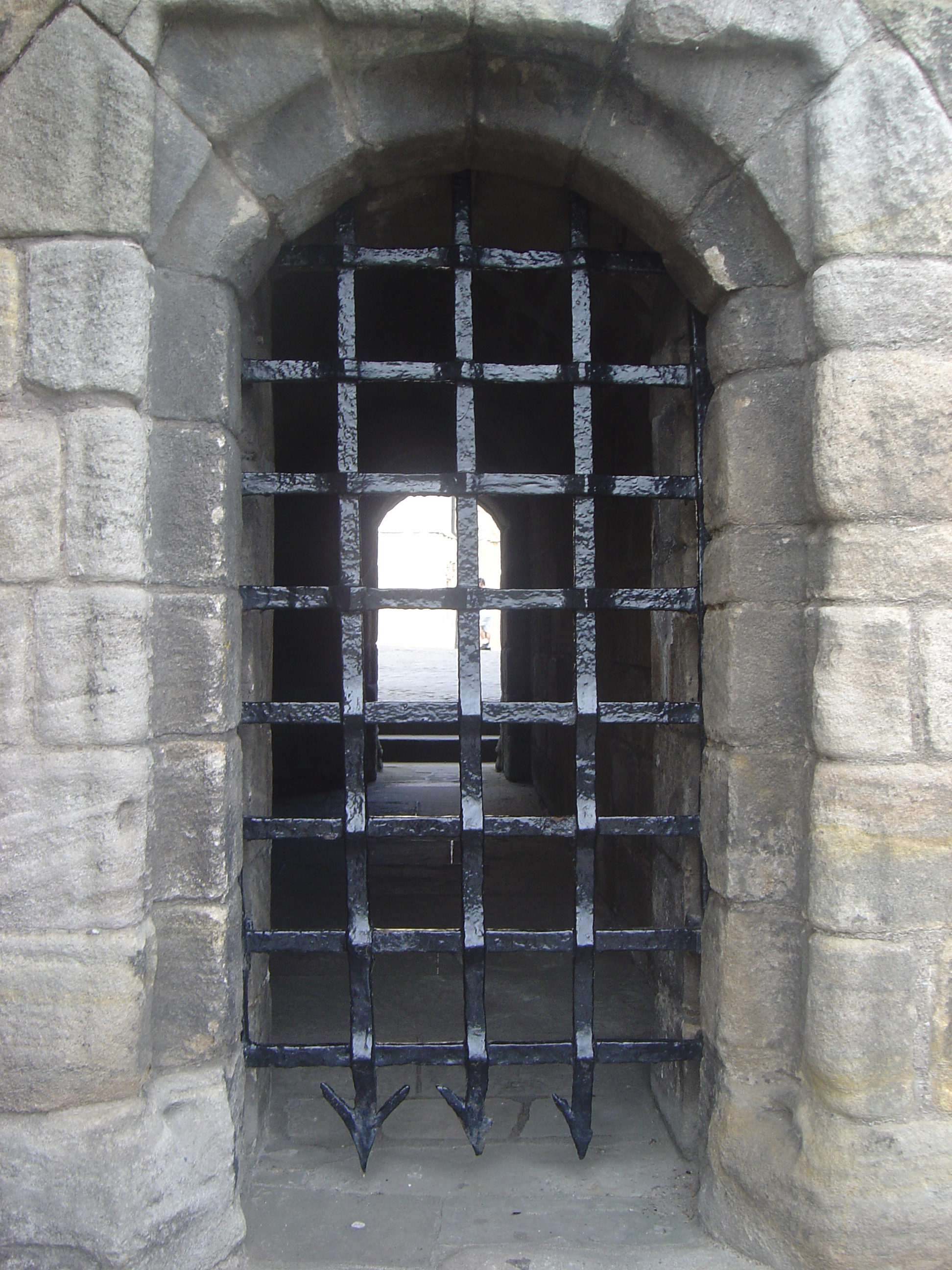 a portcullis in Stirling Castle